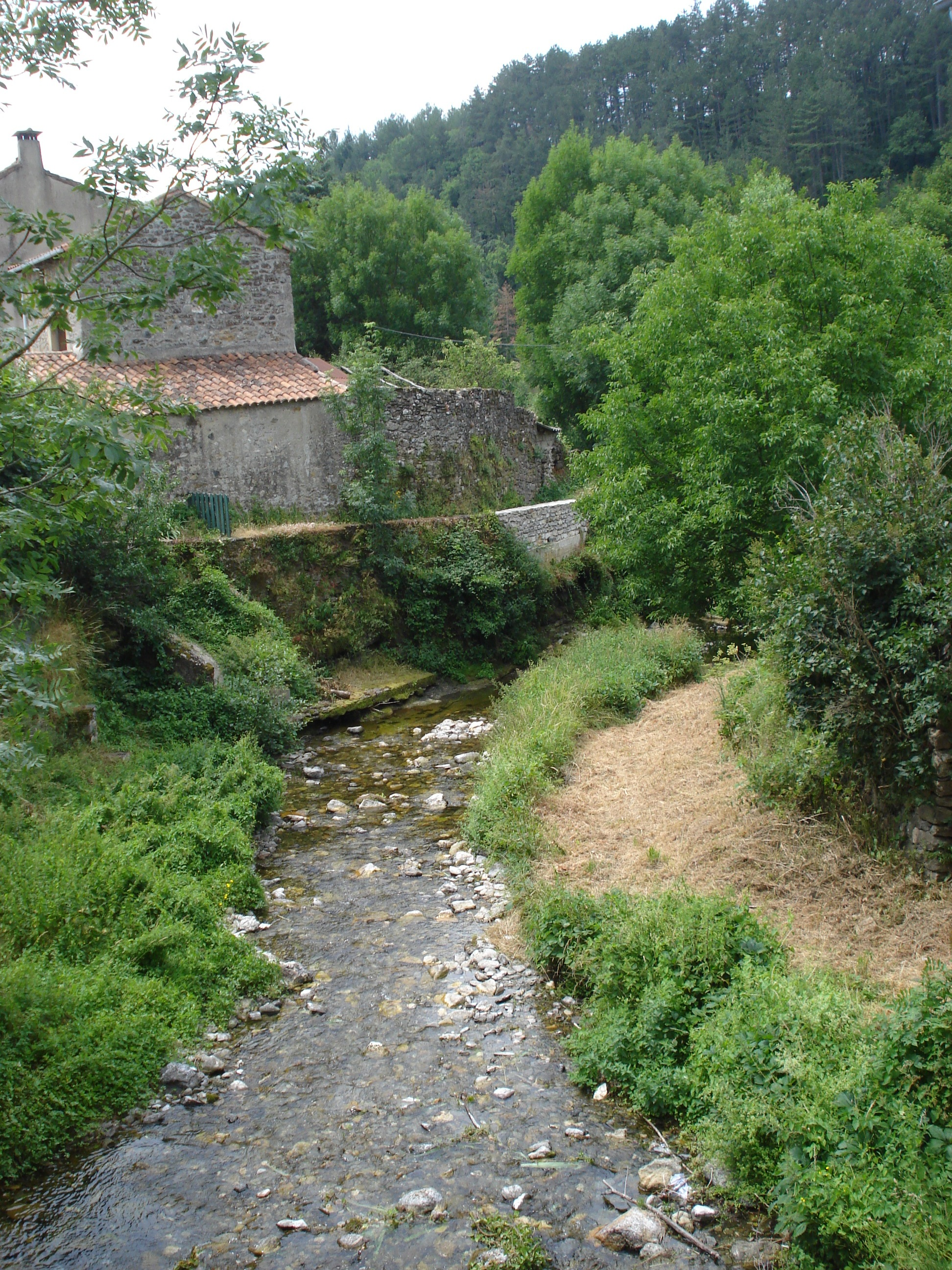 Vis river at Alzon (Gard, Fr).